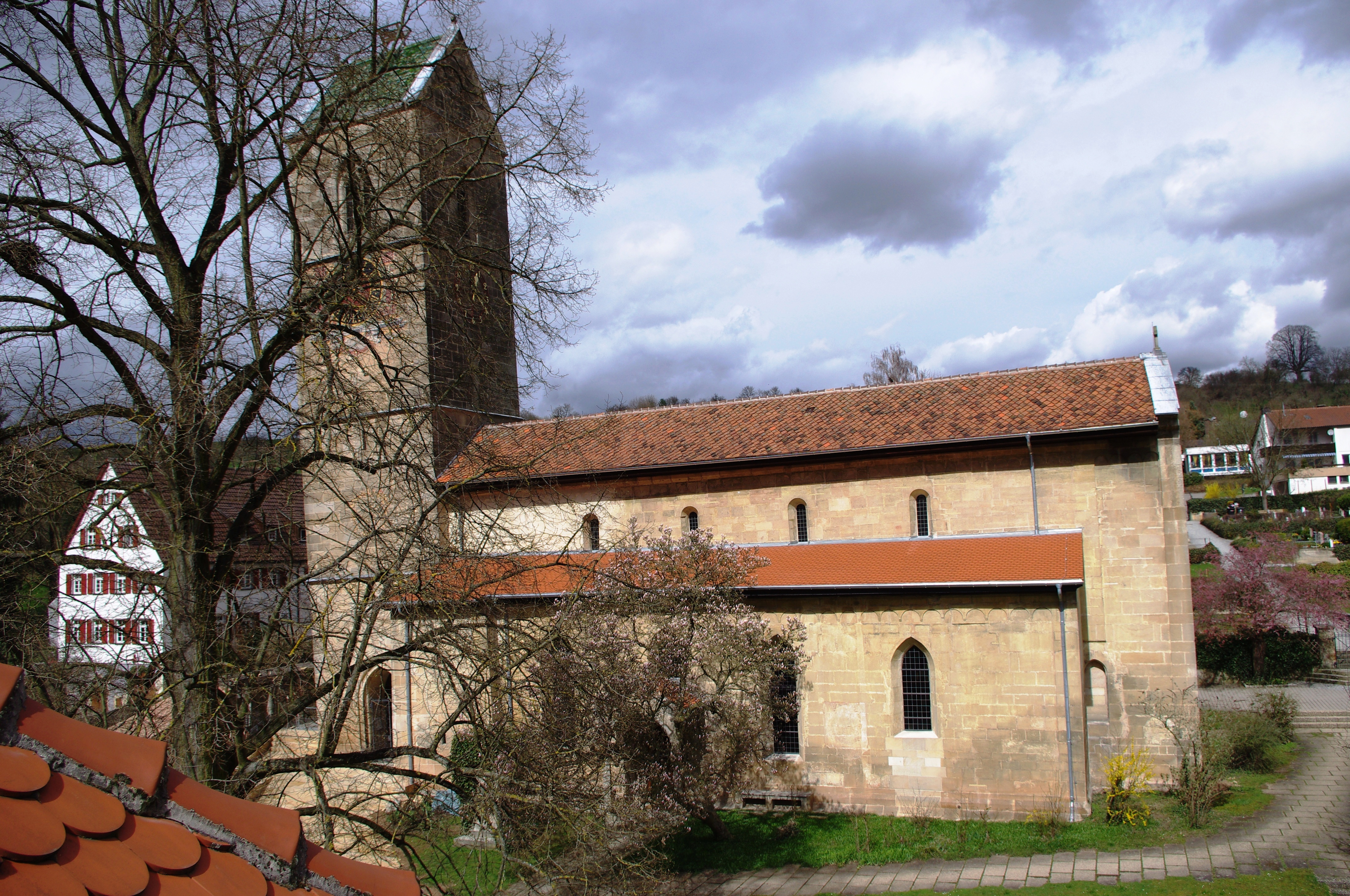 view from south: Martinskirche (Neckartailfingen)